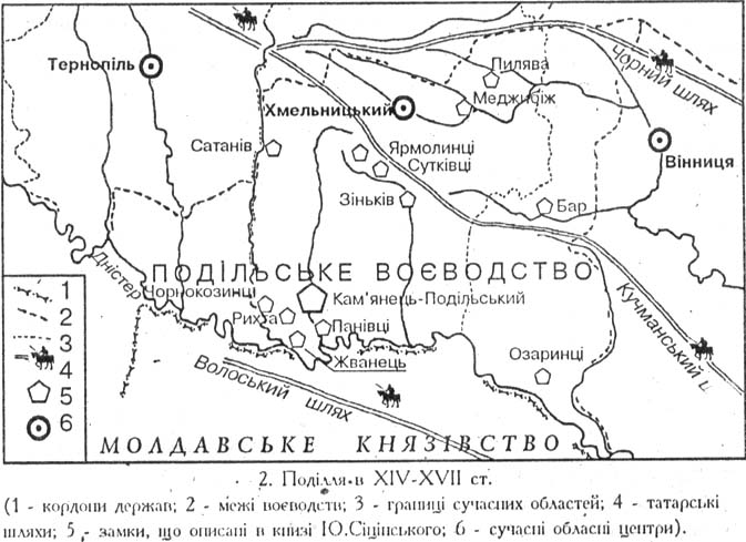 Map of Podolia woevodstvo Ukraine